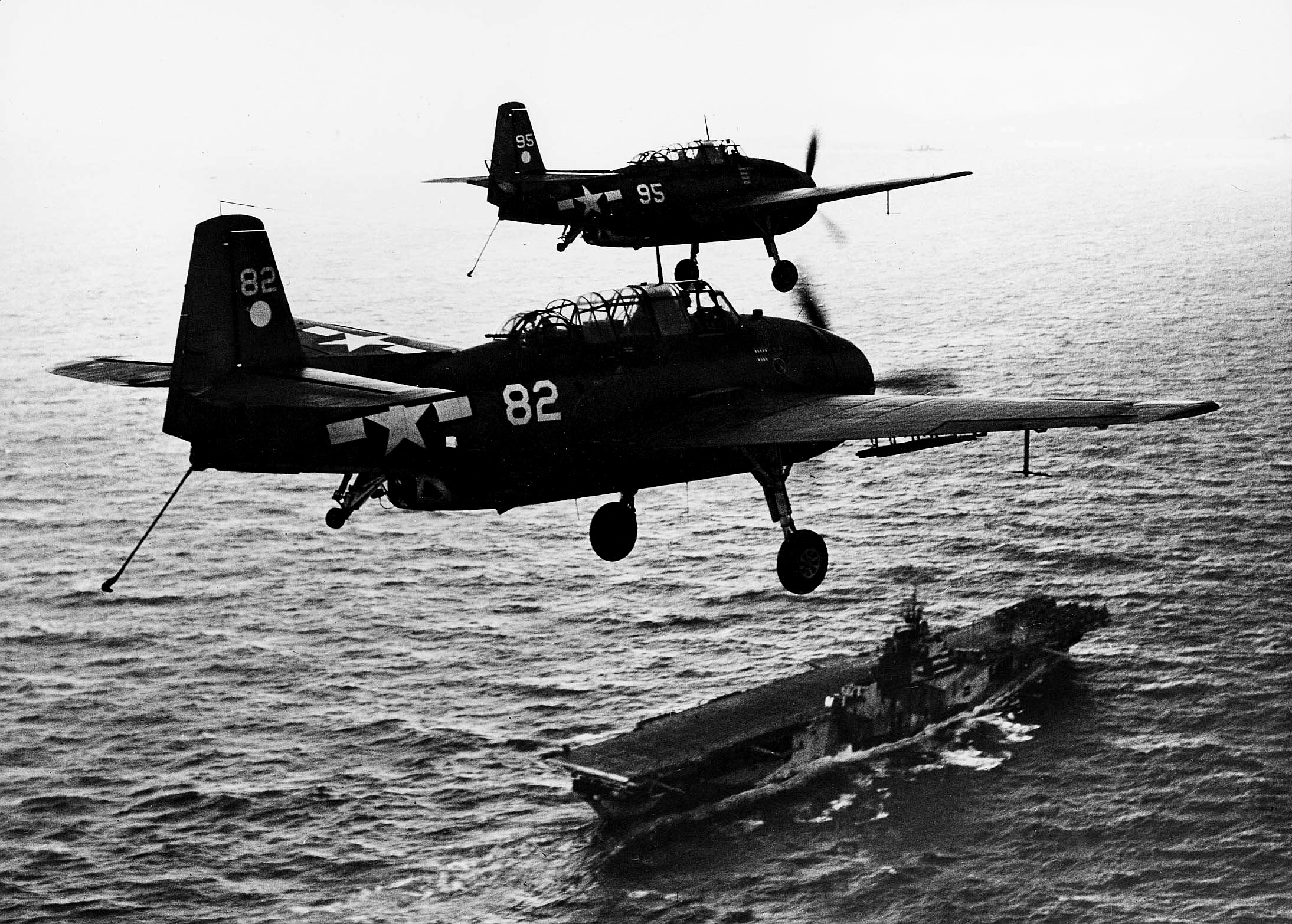 Two U.S. Navy Grumman TBF-1C "Avenger" of Torpedo Squadron 2 (VT-2) pass over the aircraft carrier USS Hornet (CV-12) prior to entering the pattern for recovery on board the carrier. Note the mission markings on the aircraft, as well as the white dot on their tails indicating assignment to USS Hornet. VT-2 operated from Hornet during that carrier's initial combat actions between March and September 1944. This included the "Mission Beyond Darkness" in the June 1944 during the Battle of the Philippine Sea, as well as strikes against the Palaus, Carolines, the Bonin Islands, New Guinea, and the Marianas.